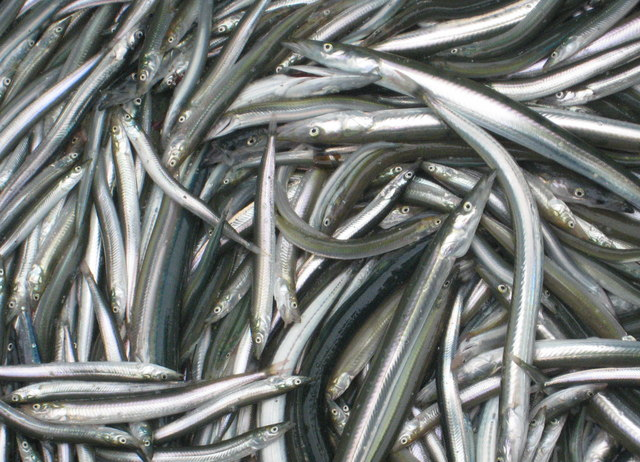 Sand eels Part of the haul from a seine net fishing session on the beach at Sennen Cove. Sand eels are an important food source for diving birds such as cormorants, which can often be seen in the cove.